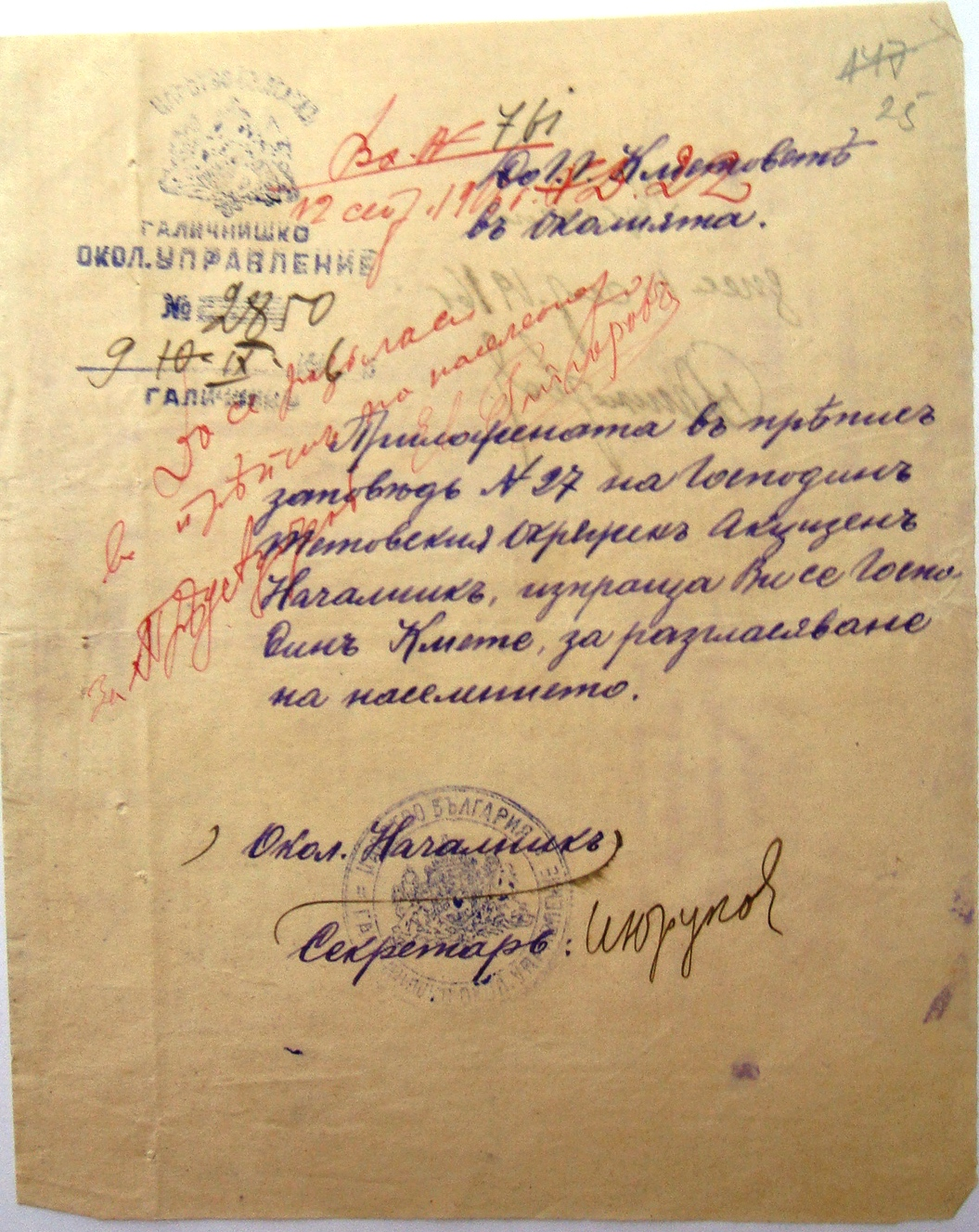 Document of urban municipal administration of the city Galichnik from September 9, 1916. This media file is produced by Wikipedian in Residence in Category:Wikipedian in Residence at DARM in 2016.